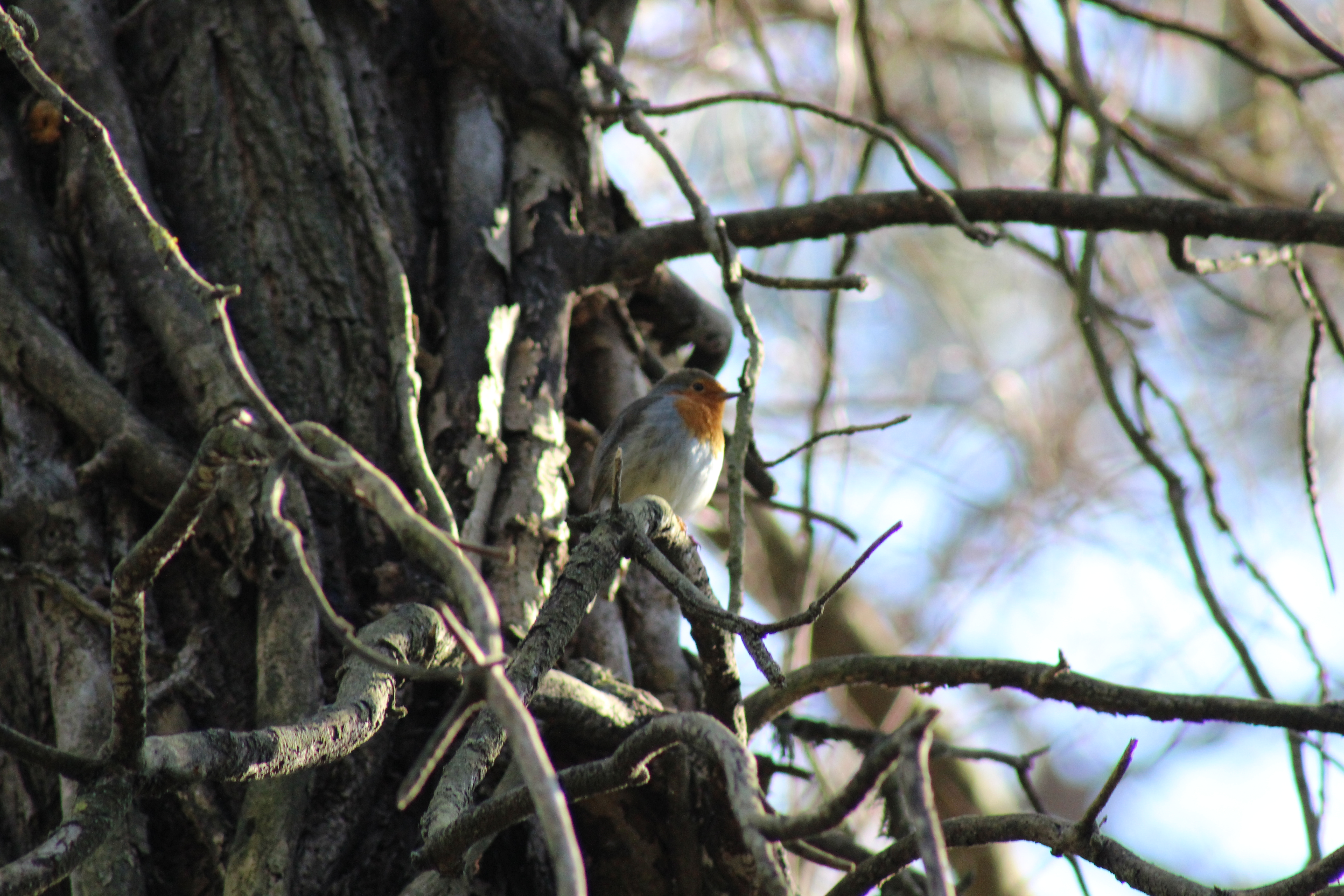 European robin on a tree in Villa Ada, Rome, Italy